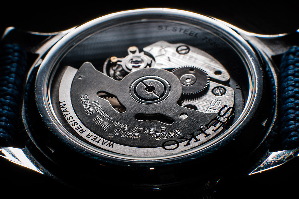 500px provided description: Seiko 5 2